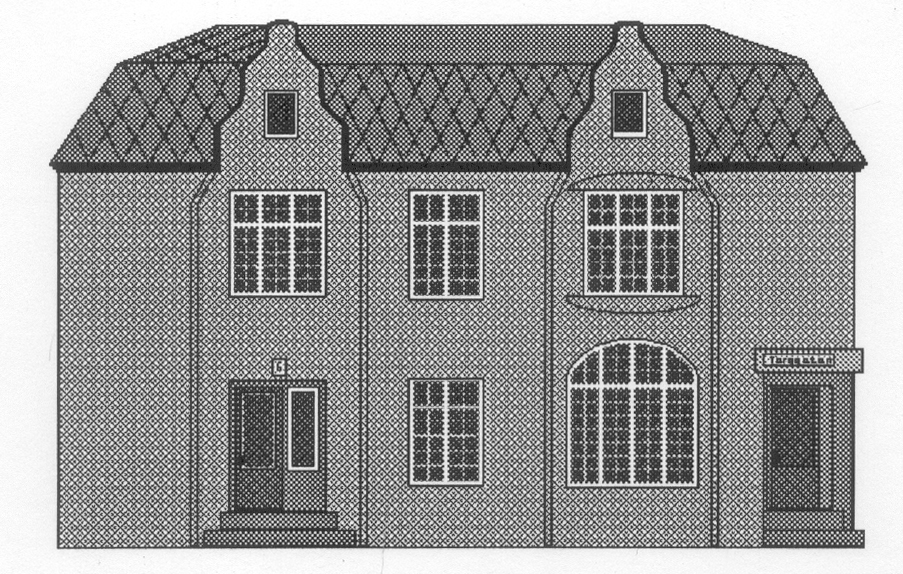 The Art Nouveau house in central Lycksele, Sweden. Demolished 1993.